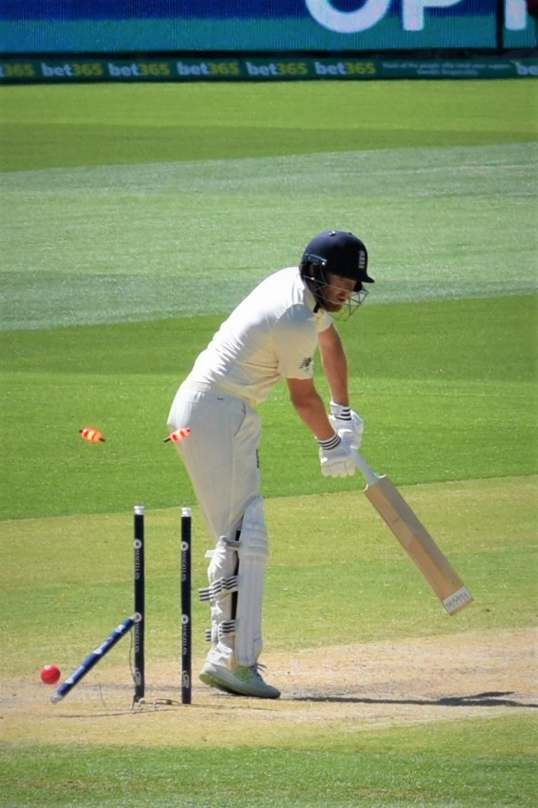 Jonny Bairstow bowled by Mitchell Starc. Australia beat England by 120 runs in 2nd Ashes (Day|Night) test at Adelaide Oval